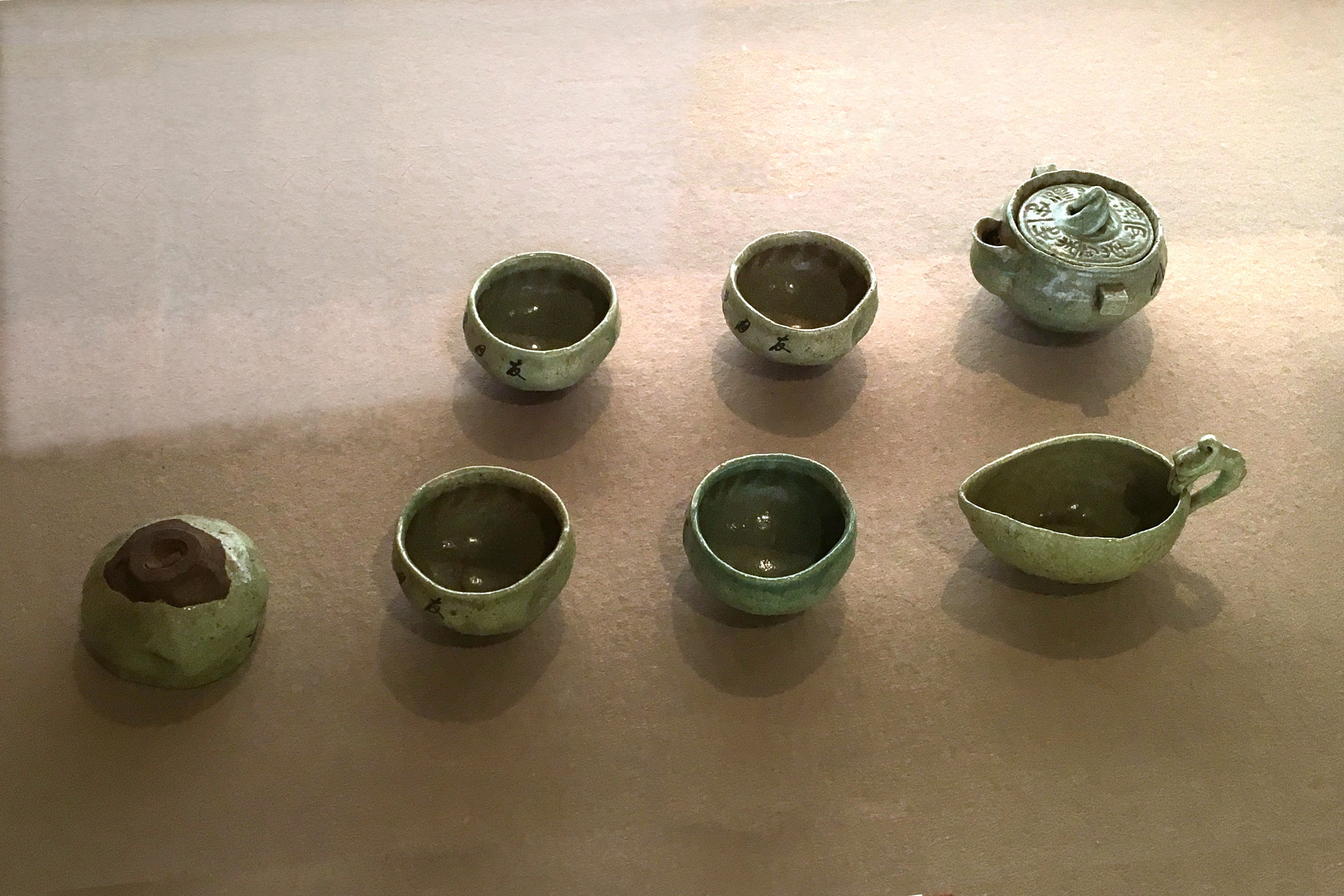 A set for green tea (sencha) utensils Sasashima ware, Maki Bokusai Edo period, 18th-19th century Private collection